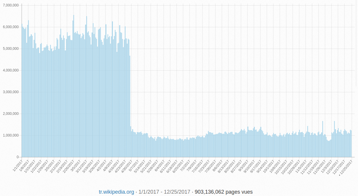 Turkish Wikipedia block, pageviews stats, year 2017.